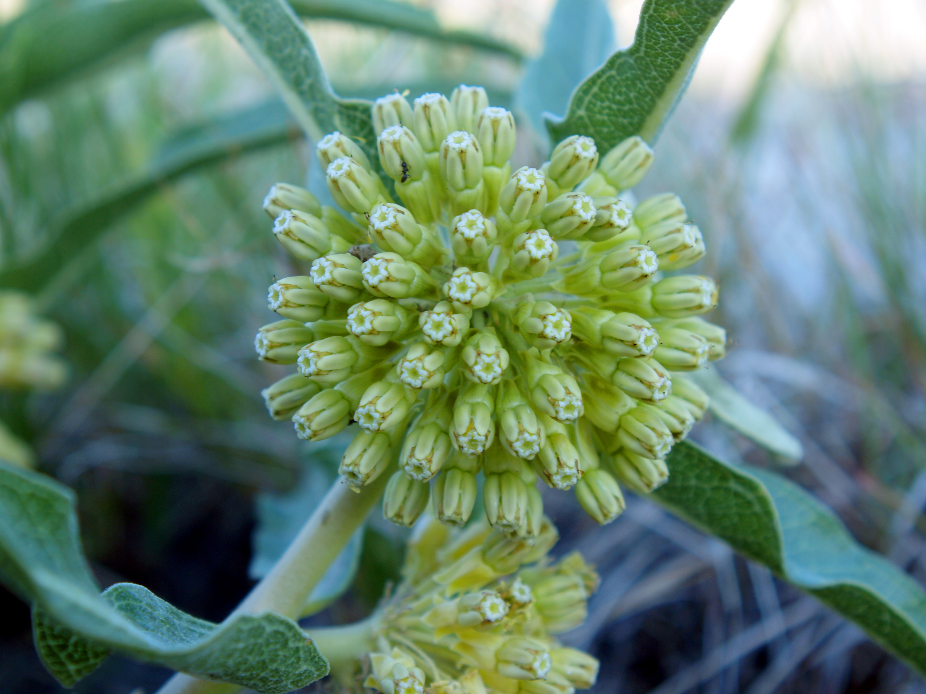 Asclepias viridiflora at Wind Cave National Park, South Dakota, USA